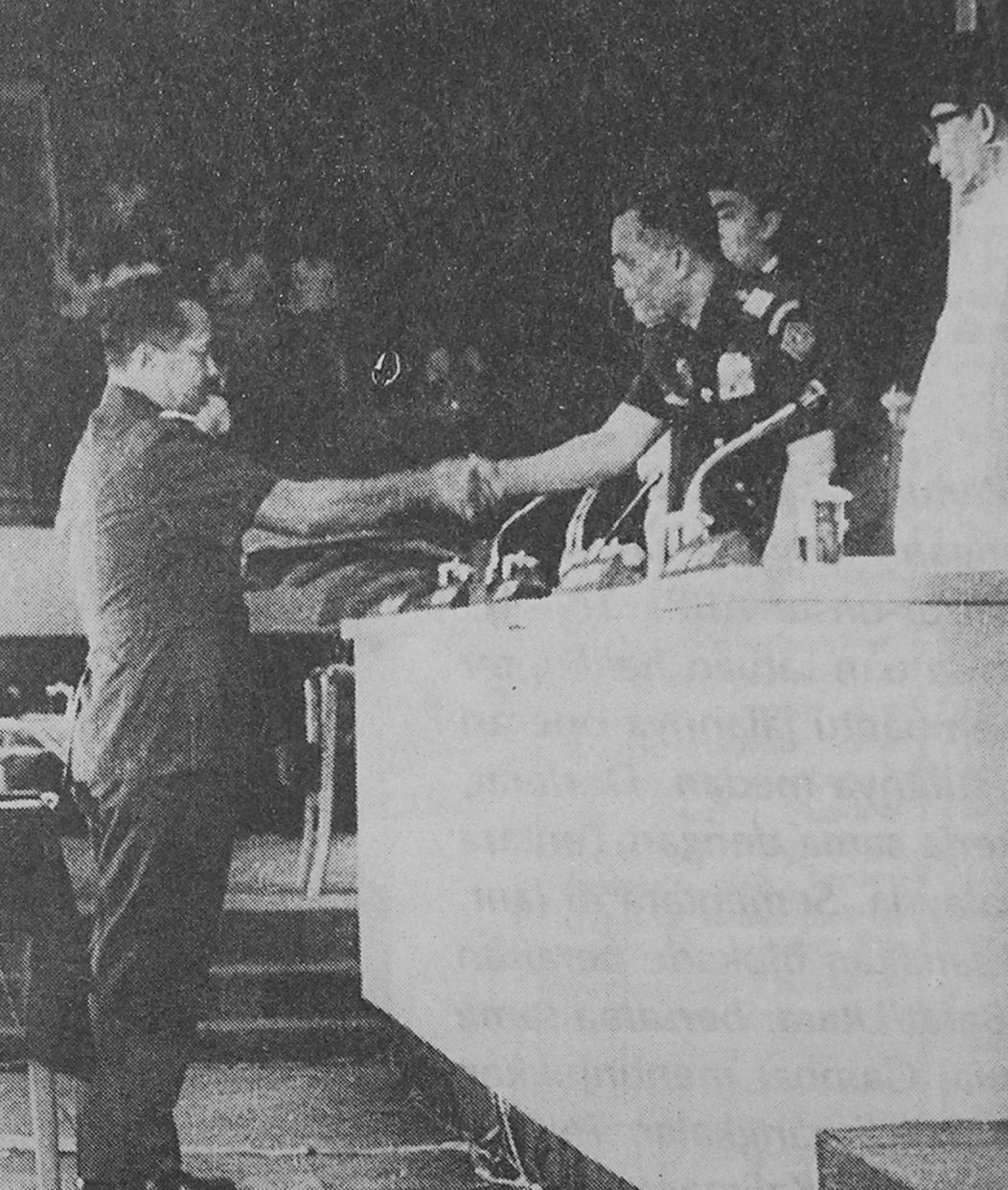 Indonesias People's Consultative Assembly chairman Nasution congratulating General Suharto on the his appointment as acting president, 12 March 1967